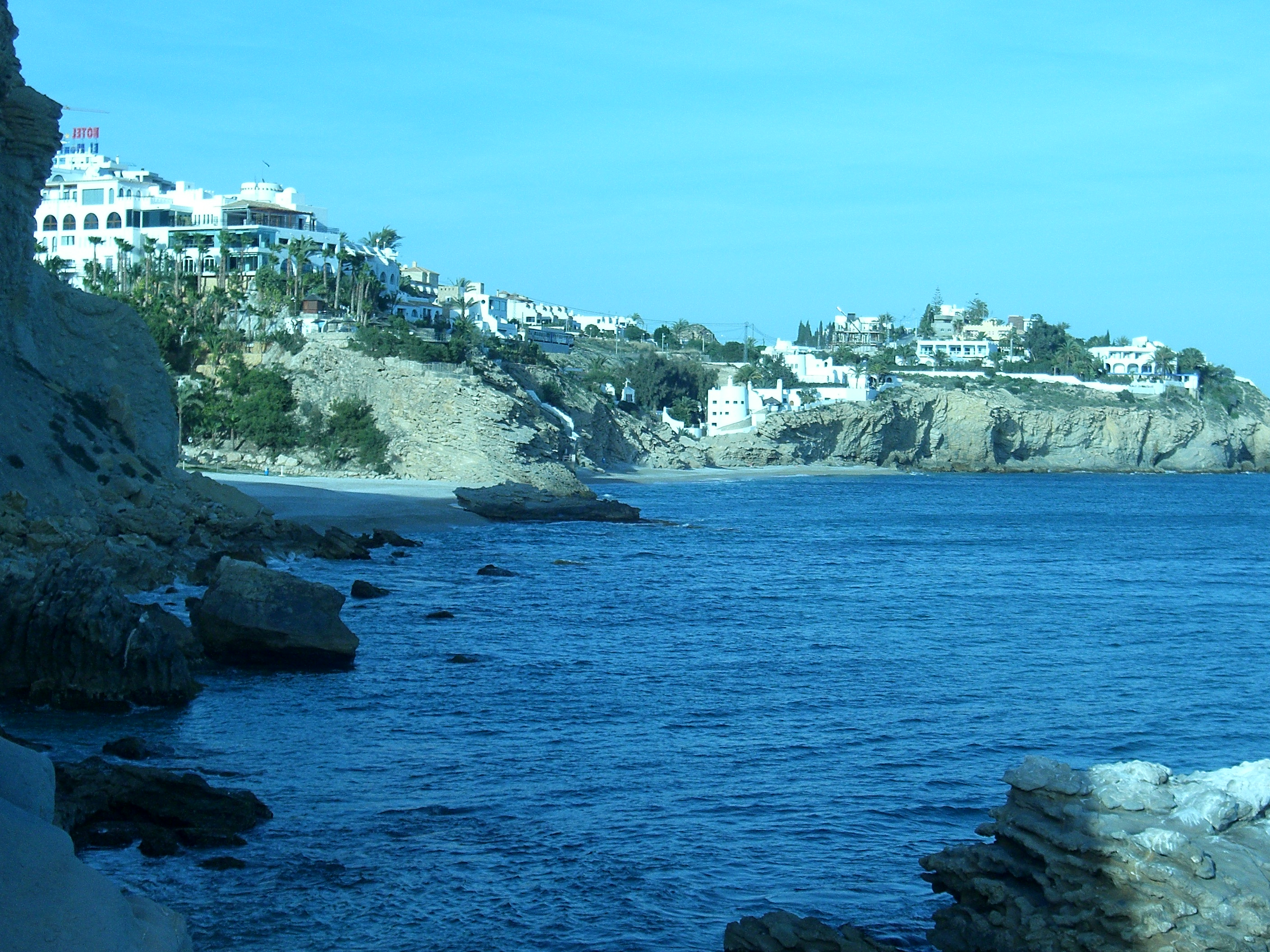 Beaches of Montiboli, near to Vila Joiosa, Alicante.